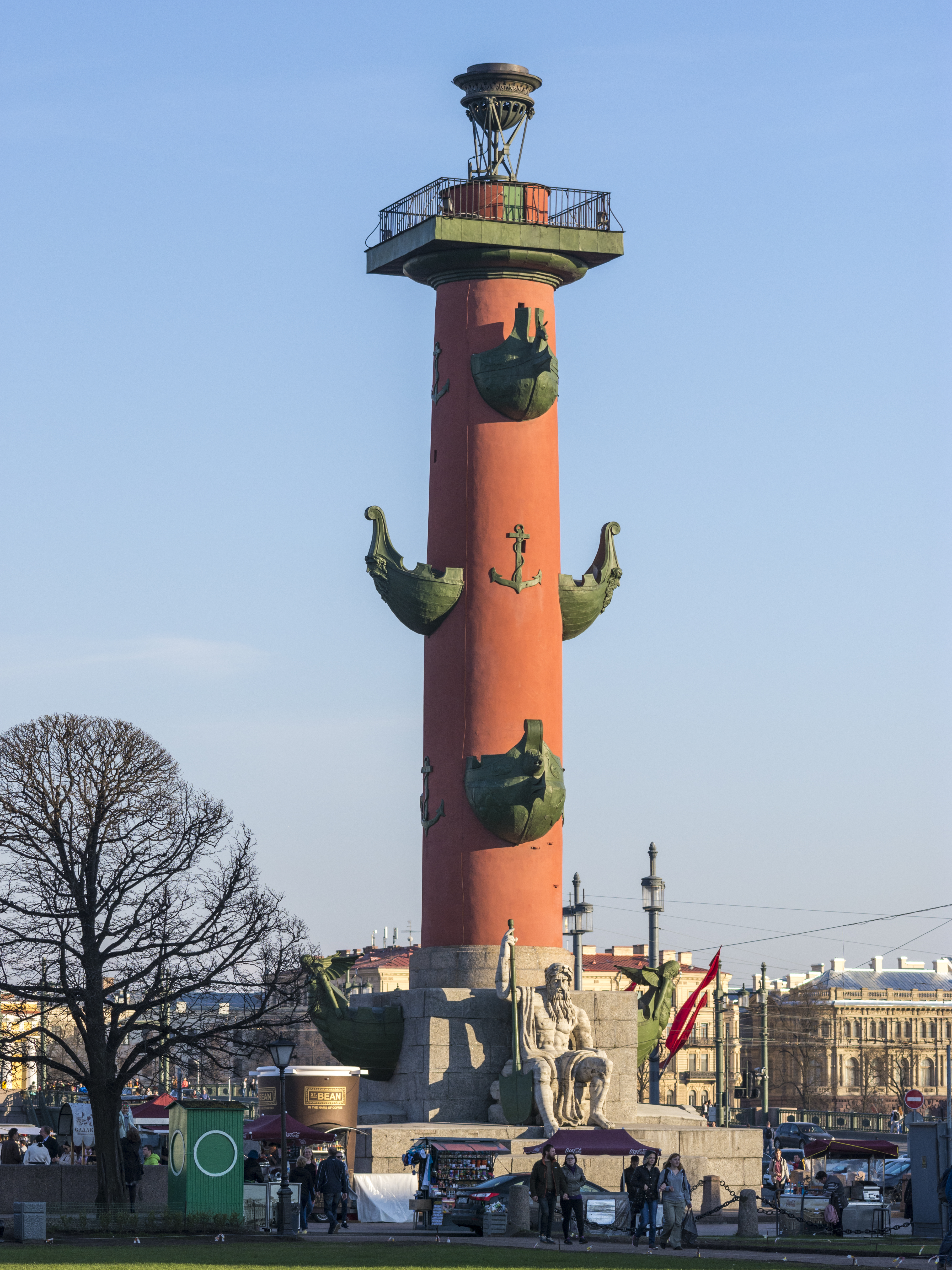 South Rostral Column on Spit of the Vasilievsky Island in Saint Petersburg